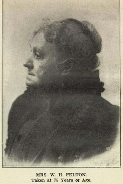 Rebecca Latimer Felton. c.1910